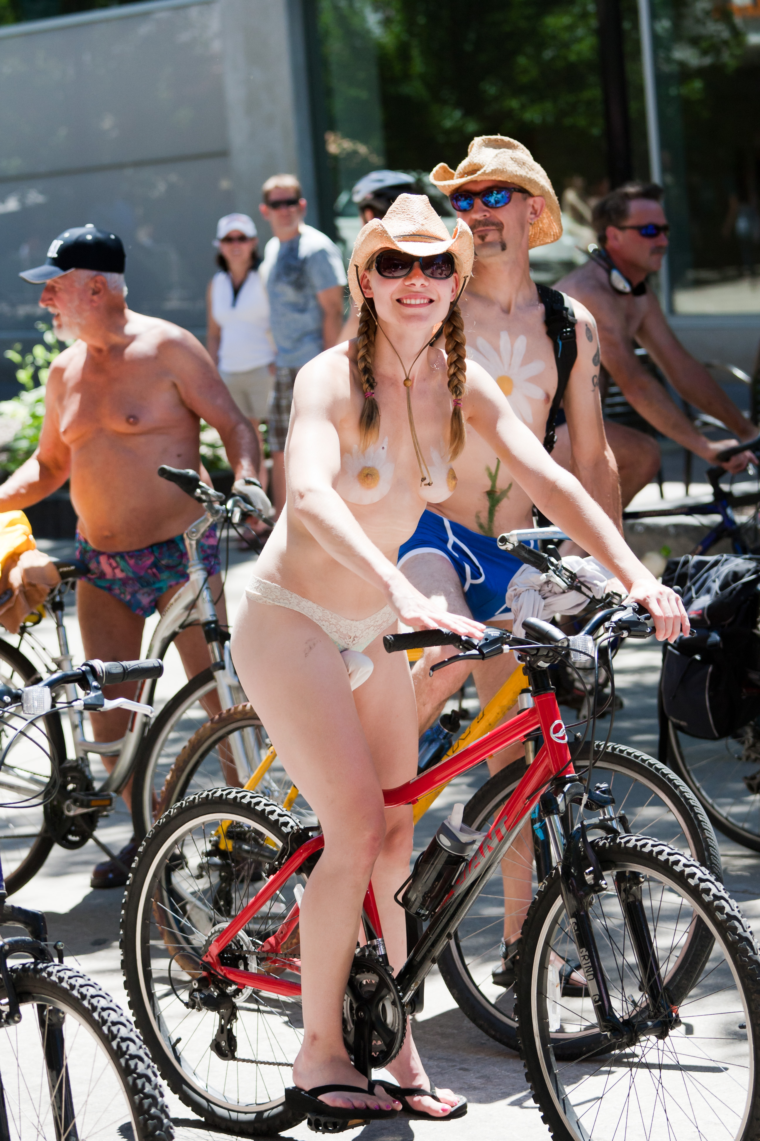 Participant Cesilee Dean, who later got arrested [1], at the World Naked Bike Ride in Madison, Wisconsin.World Naked Bike Ride